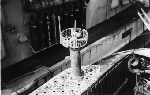 U-505: close-up of circular dipole antenna, voice tube visible to the right. Taken in Bermuda U-505: FuMB Ant 3 "BALI", Welle 0.75-3.00m, seewasserfeste Rundempfangs-Antenne für verschiedene Radarwarn-Empfänger, wie Naxos, Metox, Samos, Borkum